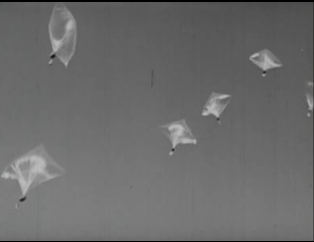 Still from a 1956 advertisement for the Crusade for Freedom. Depicts balloons from Radio Free Europe crossing the Iron Curtain.